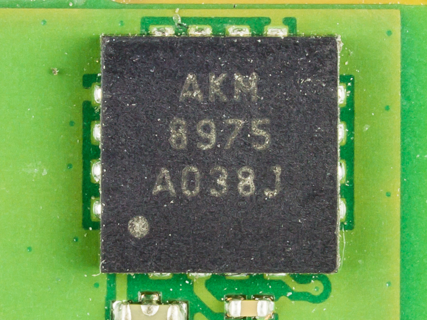 Motorola Xoom - AKM Semiconductor AKM8975 - 3-axis electronic compass. Size: 4.0 mm x 4.0 mm x 0.75. Package: QFN